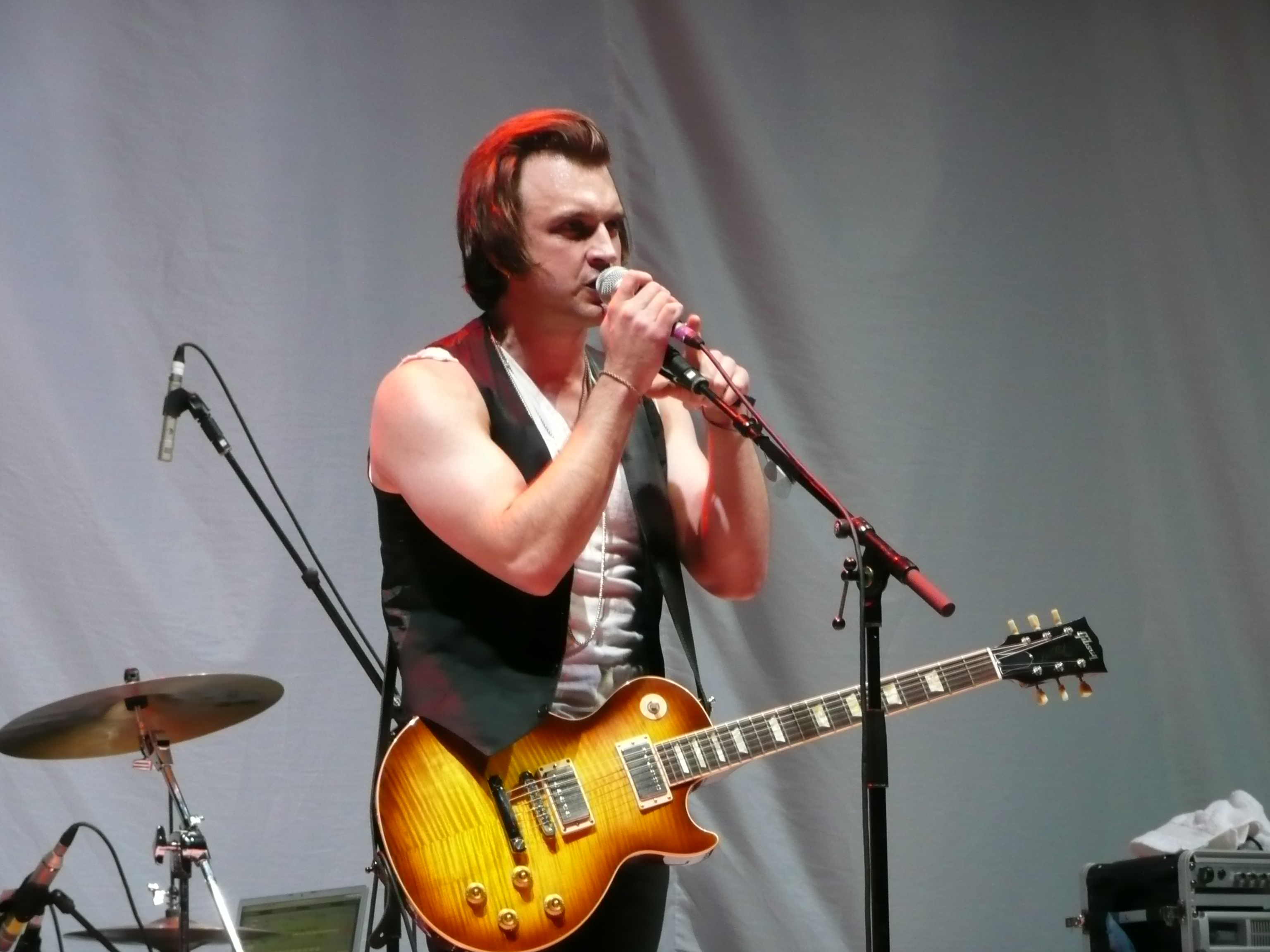 Ben King, vocalist and guitarist of Expatriate, 1st part of Placebo at the Halle Tony Garnier (Lyon)